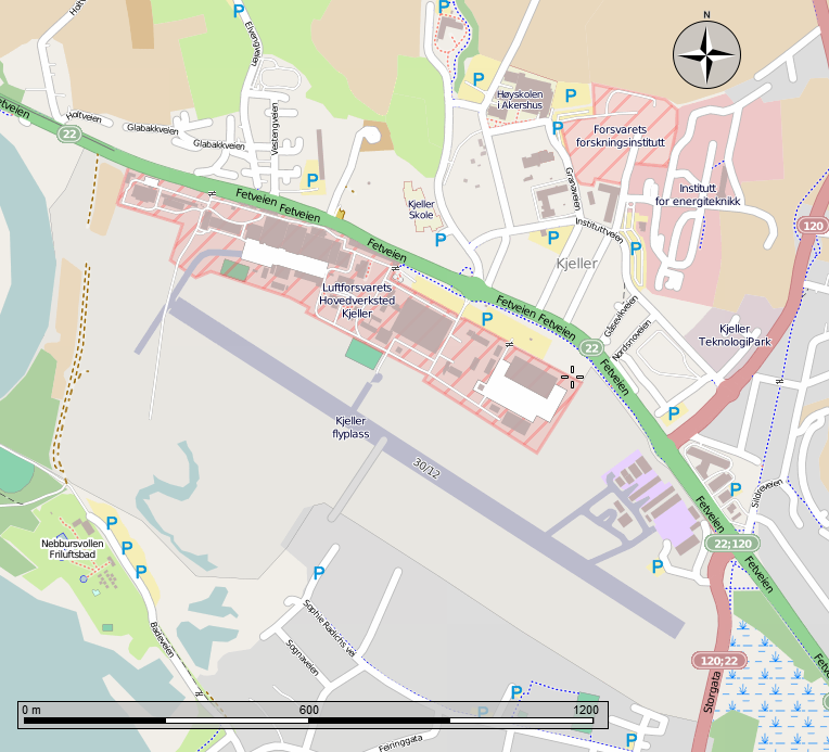 View of Kjeller Airport in Norway. Created using the Open Street Map in the Marble program.